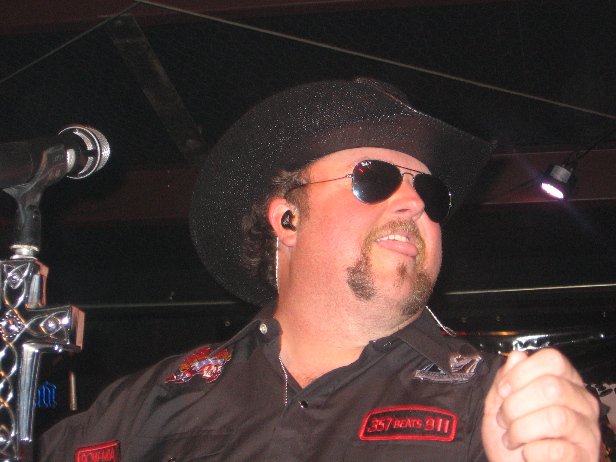 Colt Ford. At A Concert Of Colts.